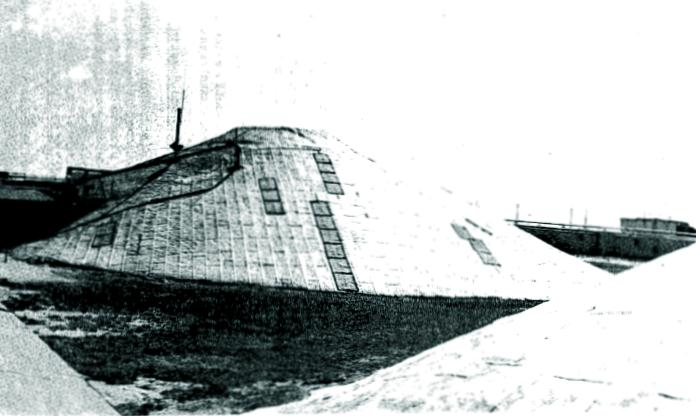 Gravel Gertie nuclear weapons handling shelter at the PANTEX Plant, Amarillo, TX. 1981.